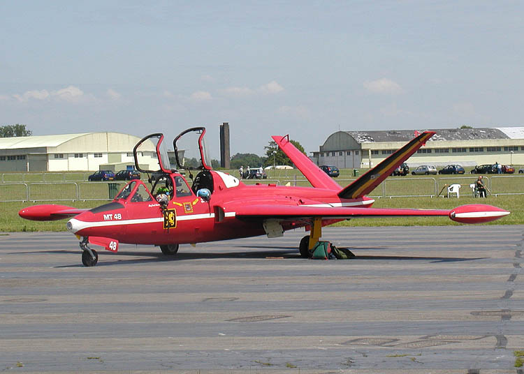 Fouga Magister CM-170R (registration MT48) of the Belgian Air Force, photographed at the Classic Jet preview day, Kemble Airfield, England, in June 2003. Taken by Adrian Pingstone and released to the public domain.